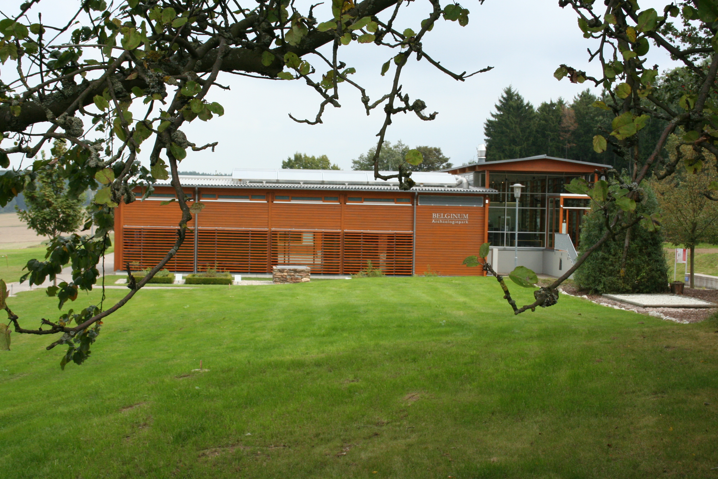 Belginum archeological park, Wederath, Germany